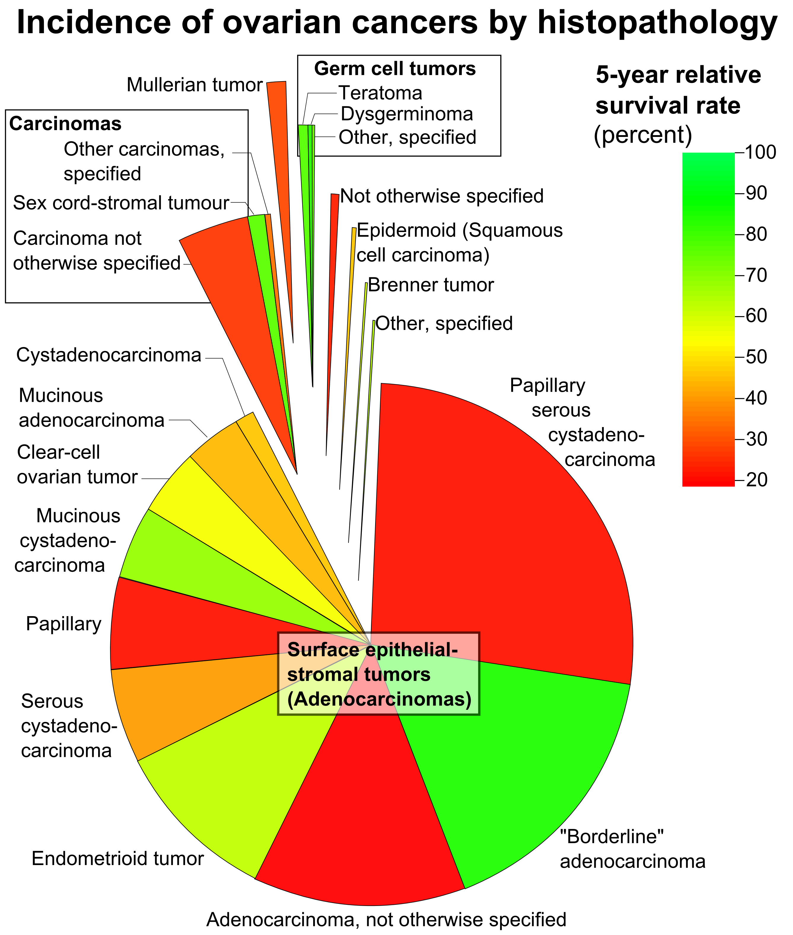 Classification of ovarian cancers in women aged 20+, with area representing histopathological type, and colors representing 5-year relative survival rate.